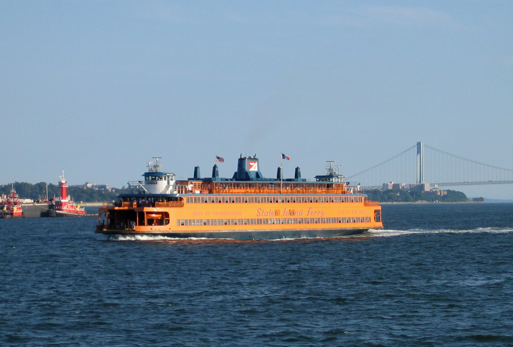 Staten Island Ferry, with the Verrazano-Narrows Bridge in the background. Photo taken by Kmf164 on July 26, 2004.